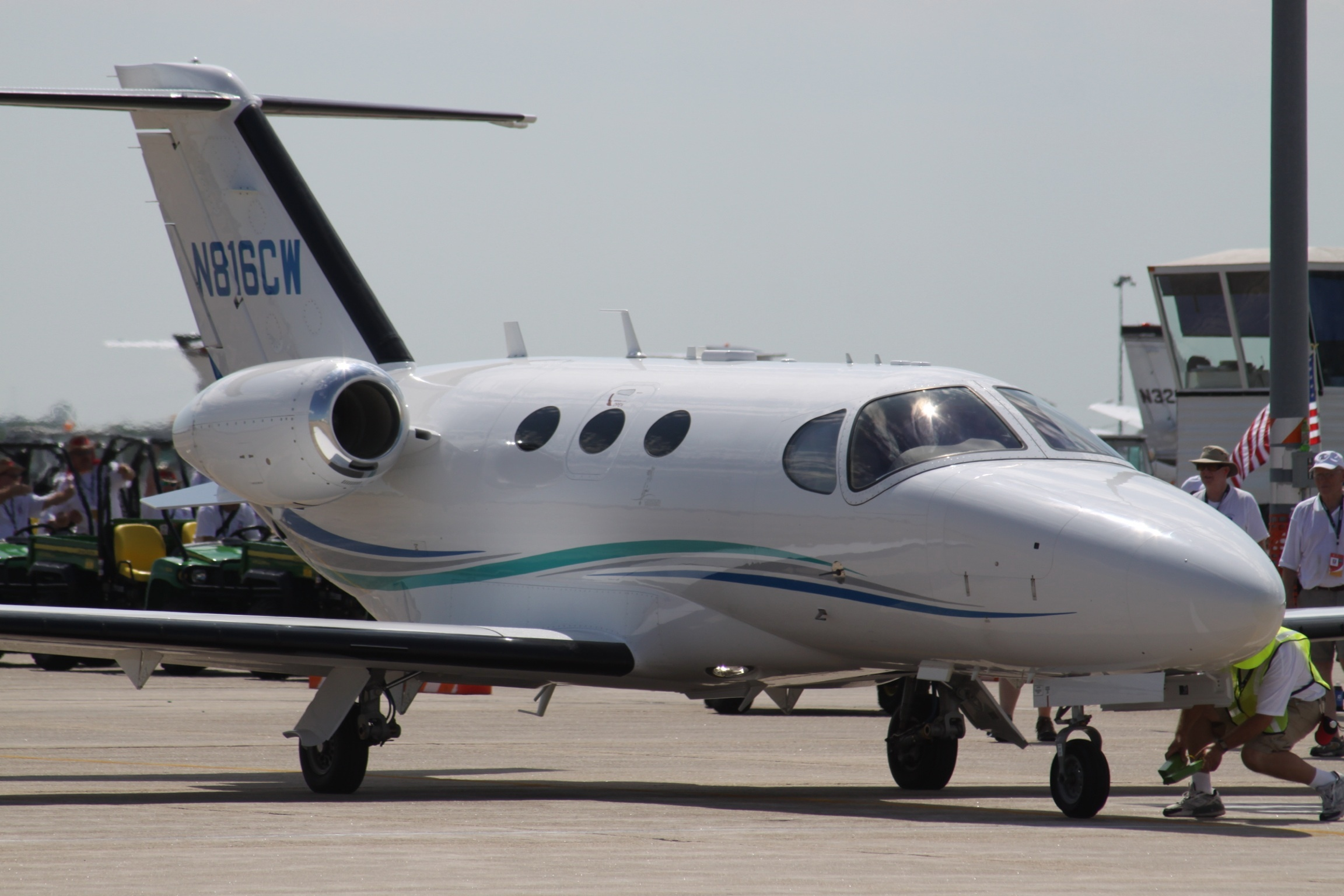 At Lincoln Airport Nebraska